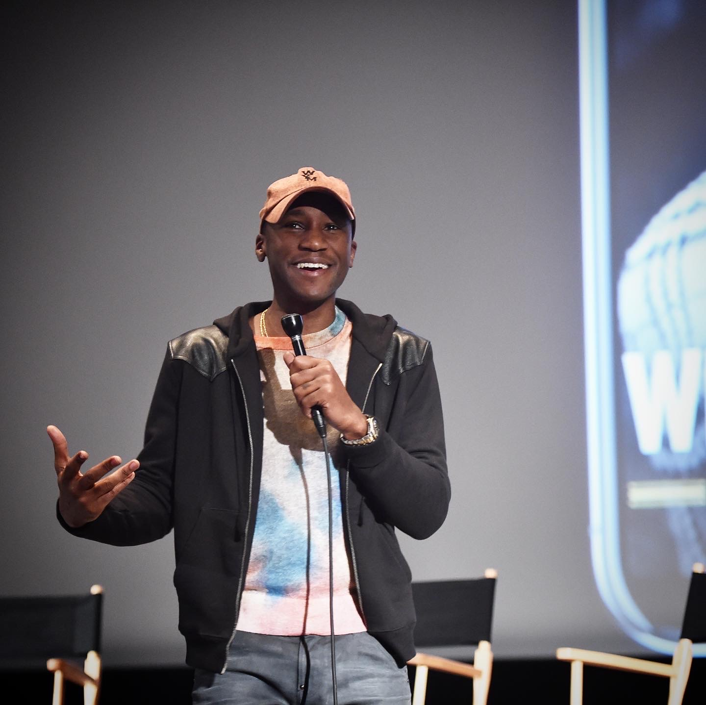 MK Asante speaks at UCLA in the James Bridges Theater on March 2, 2020.